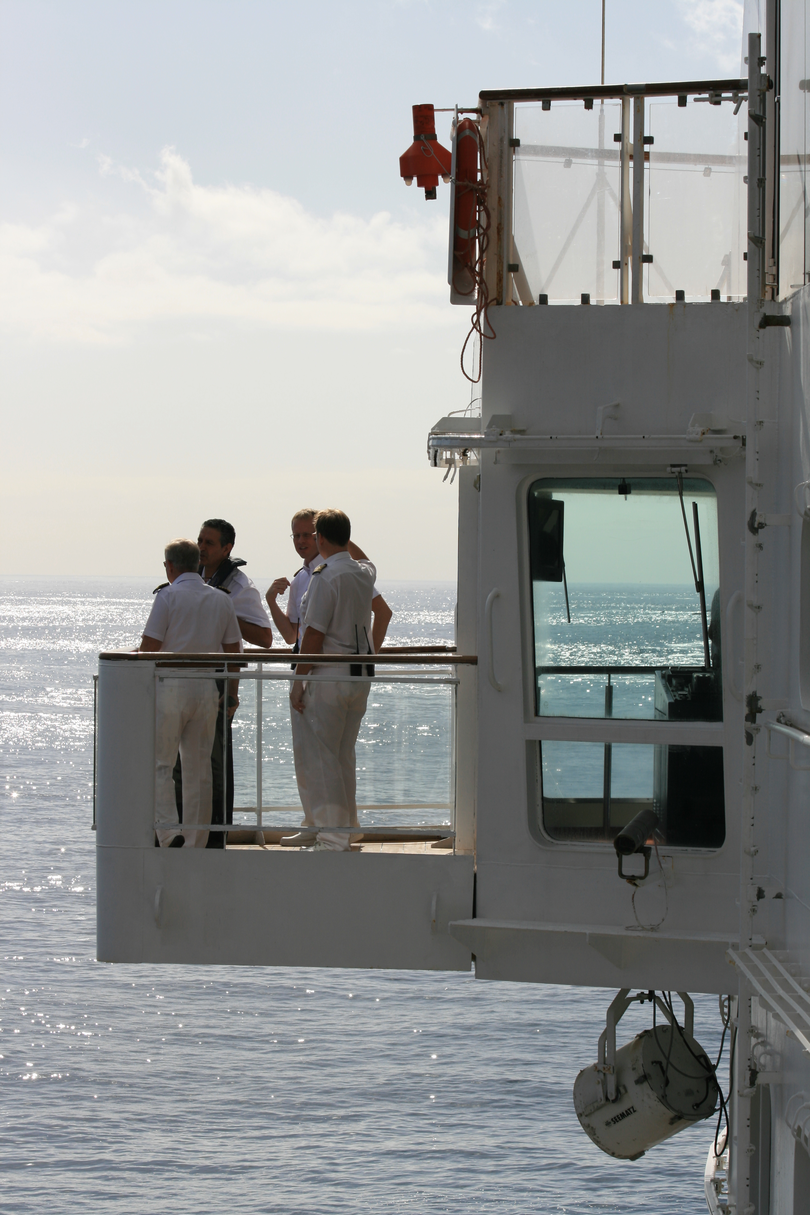 Spain, Canary Islands, La Palma: Cruise ship "Mein Schiff 1" in the port of Santa Cruz; bridge wing filled with (f.l.t.r.) the finnish captain Kjell Holm, an spanish harbor pilot and two officers during the landing process